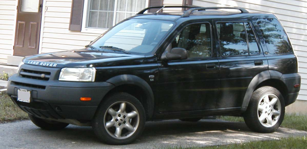 2002-2003 Land Rover Freelander photographed in USA.